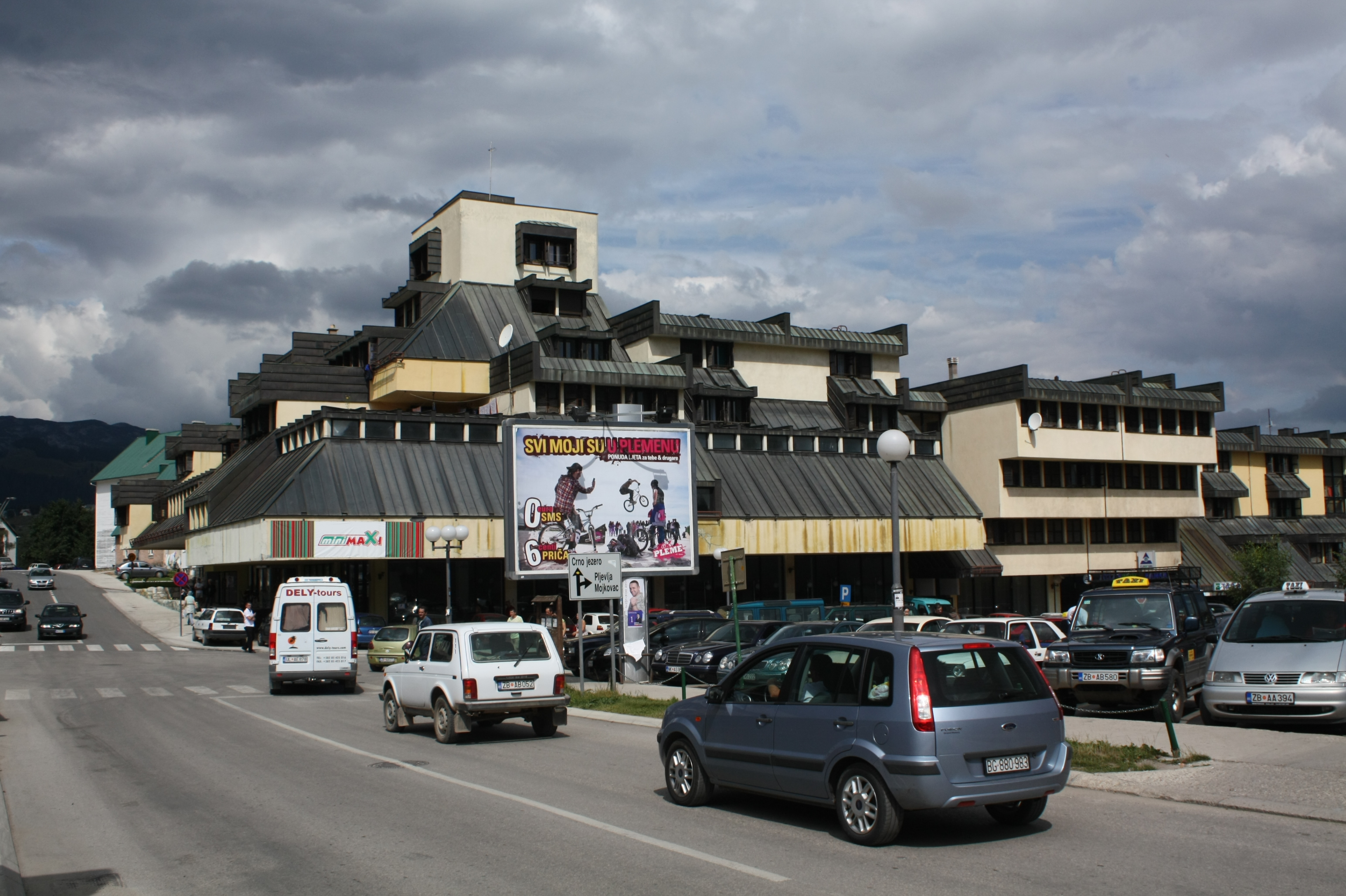 Žabljak, Montenegro - town centre